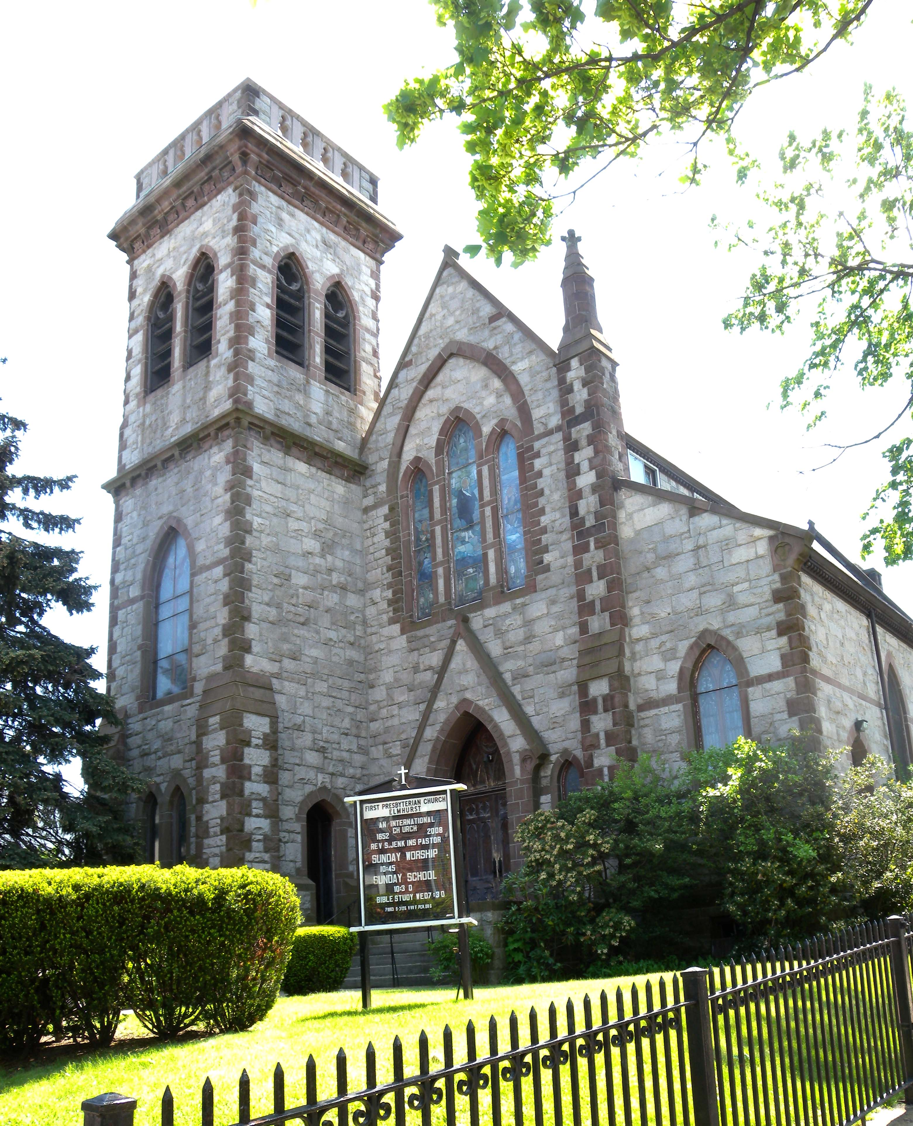 Looking south from Queens Boulevard sidewalk at First Presbyterian Church Elmhust on a sunny midday.